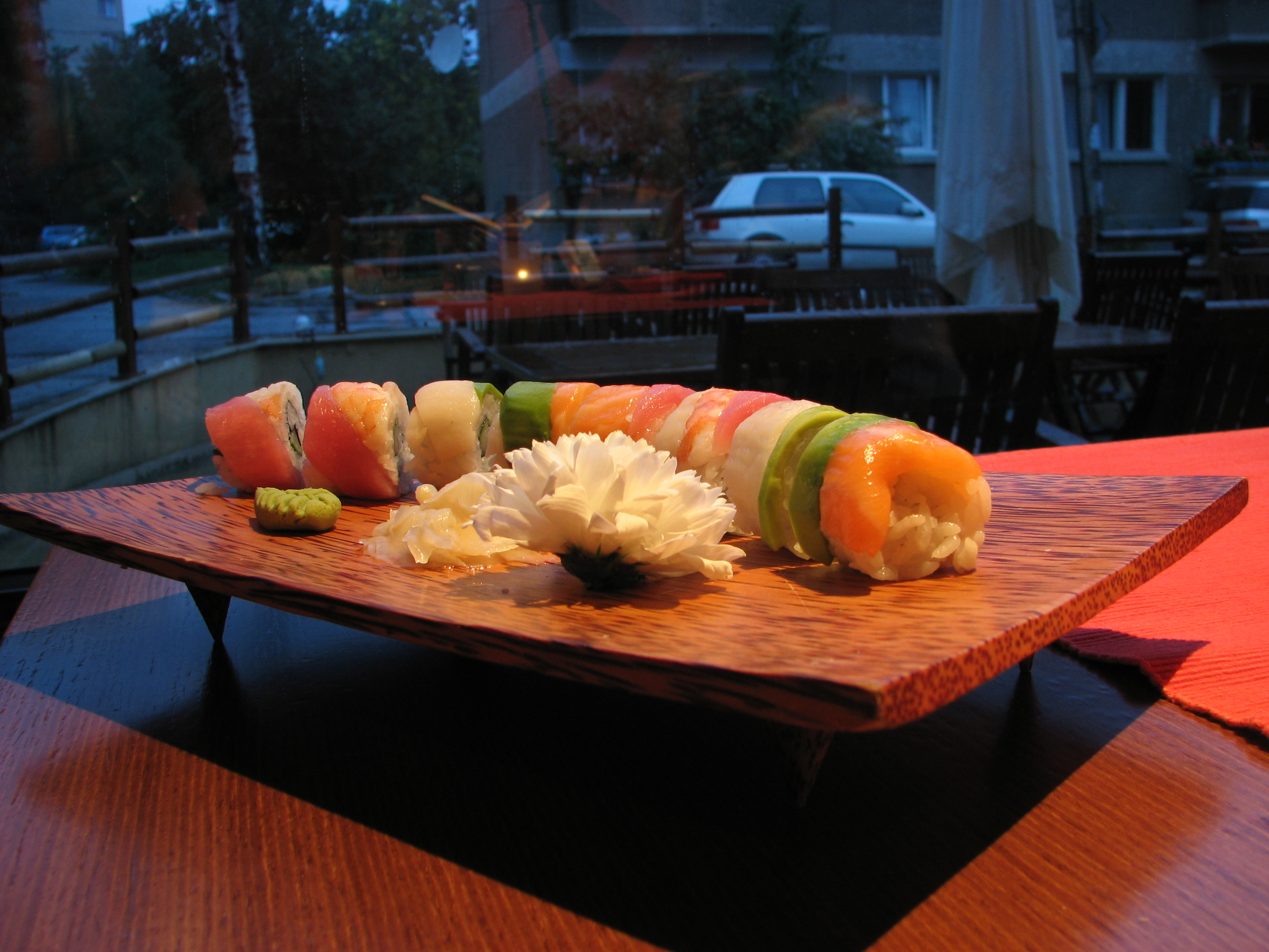 Beautiful sushi rolls in the colours of the rainbow.